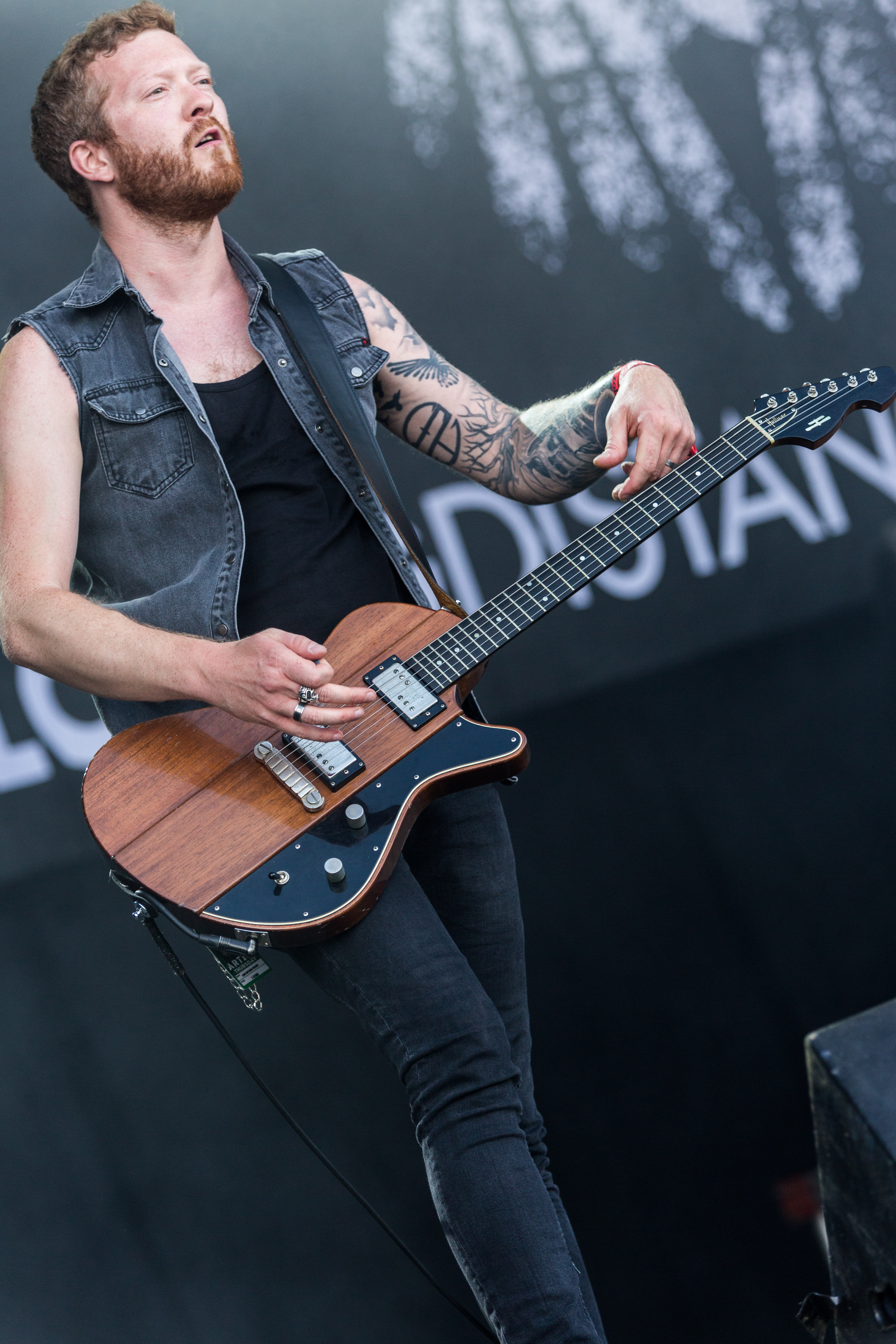 The German post-rock band Long Distance Calling at the Summer Breeze Open Air 2017 in Dinkelsbühl/Germany.